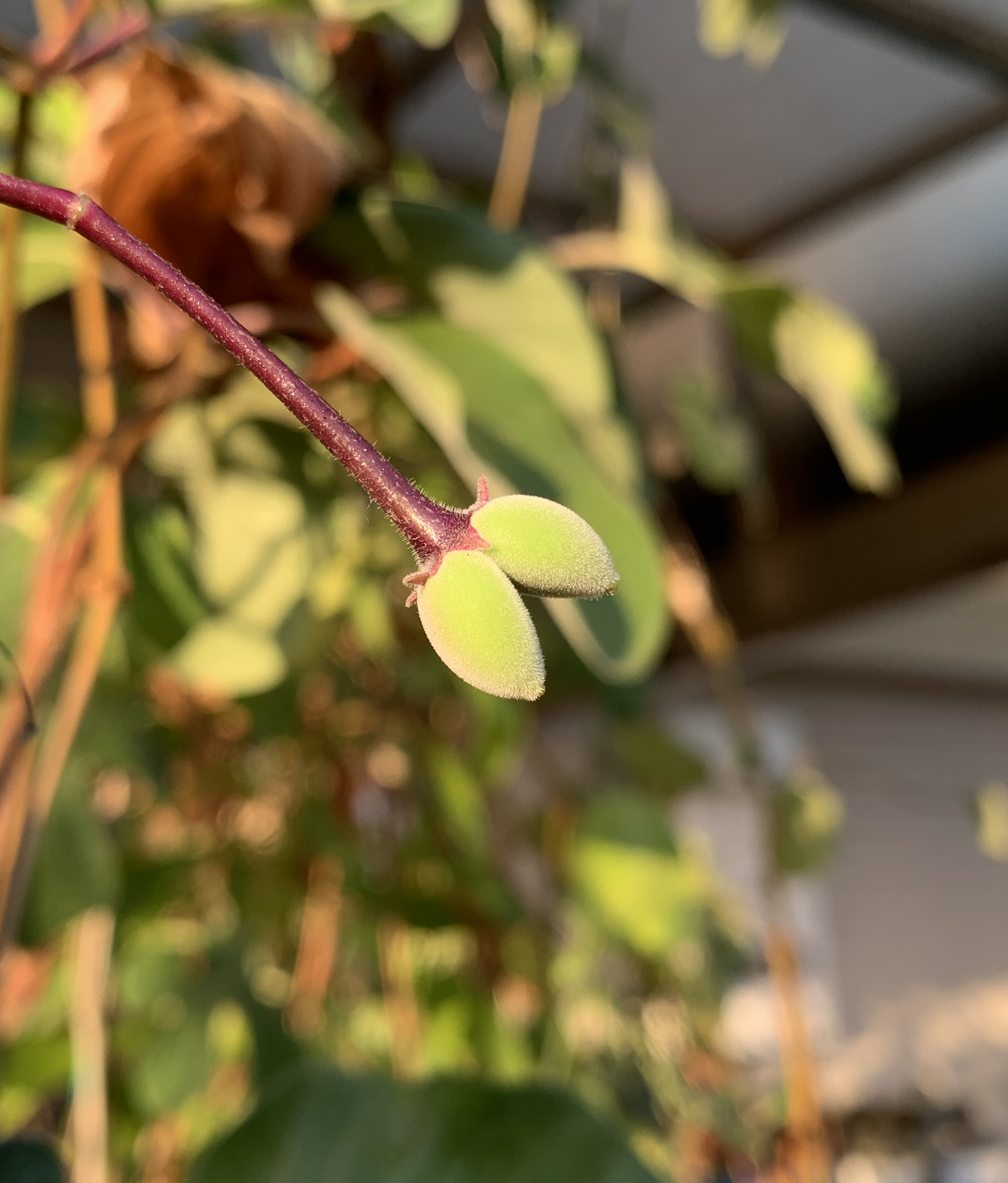 Baseonema gregorii seed pods